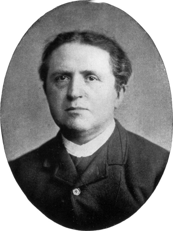 Photograph of Abraham Kuyper